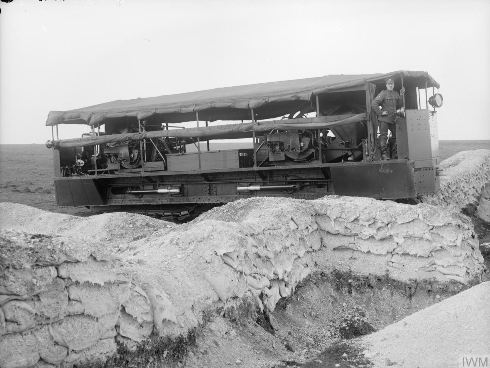 Experimental Diplock Pedrail Tractor, with Astor Engines. Salisbury Plain.